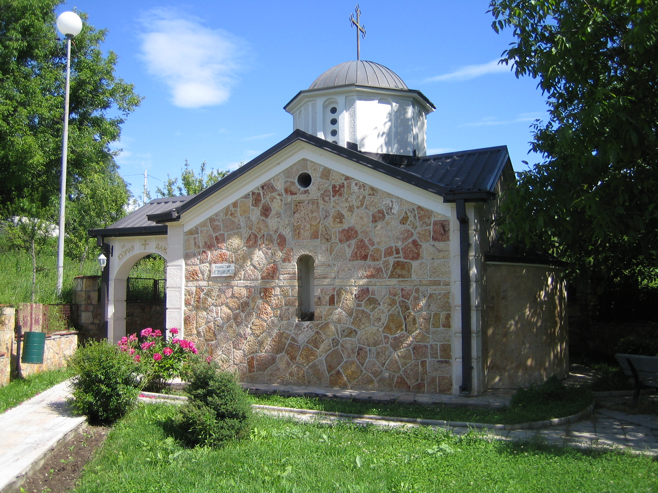 Church „St. Kuzman and Damjan“ - Govrlevo (Skopje)